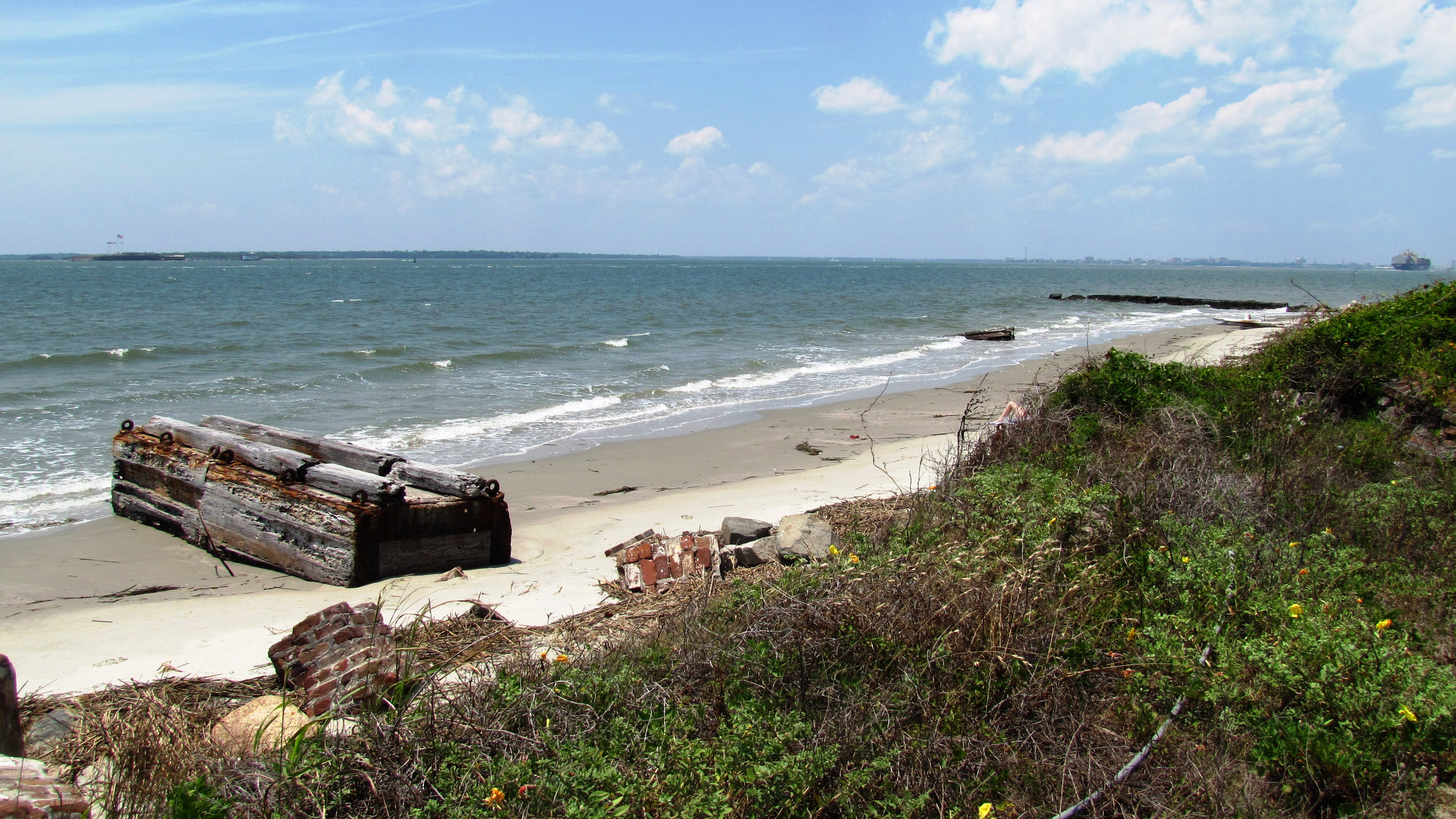 Beach at Sullivan's Island in Charleston, South Carolina, USA.